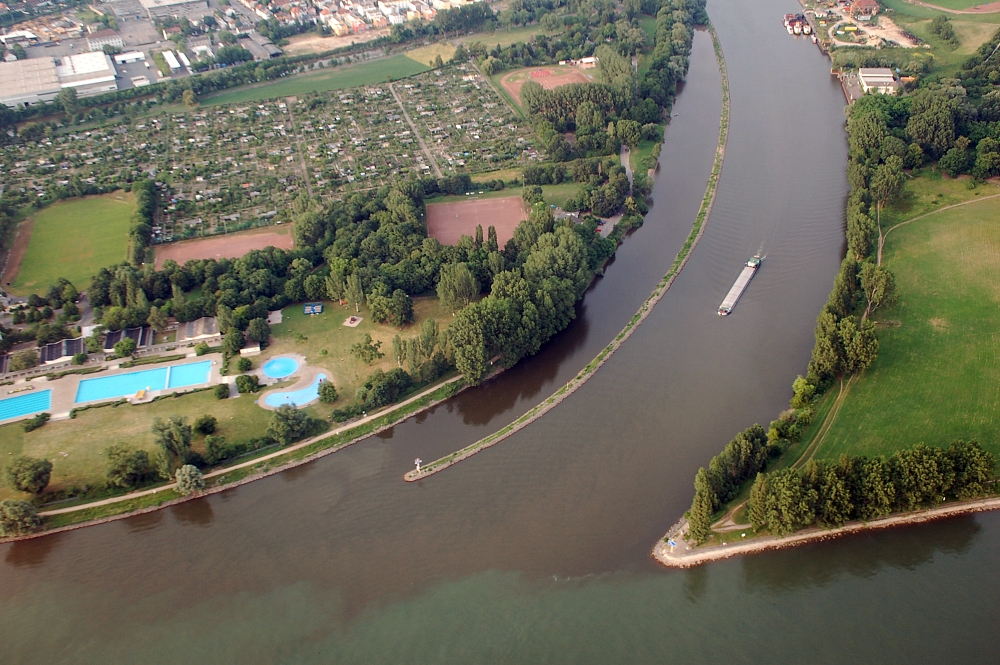 Main, estuary, Germany